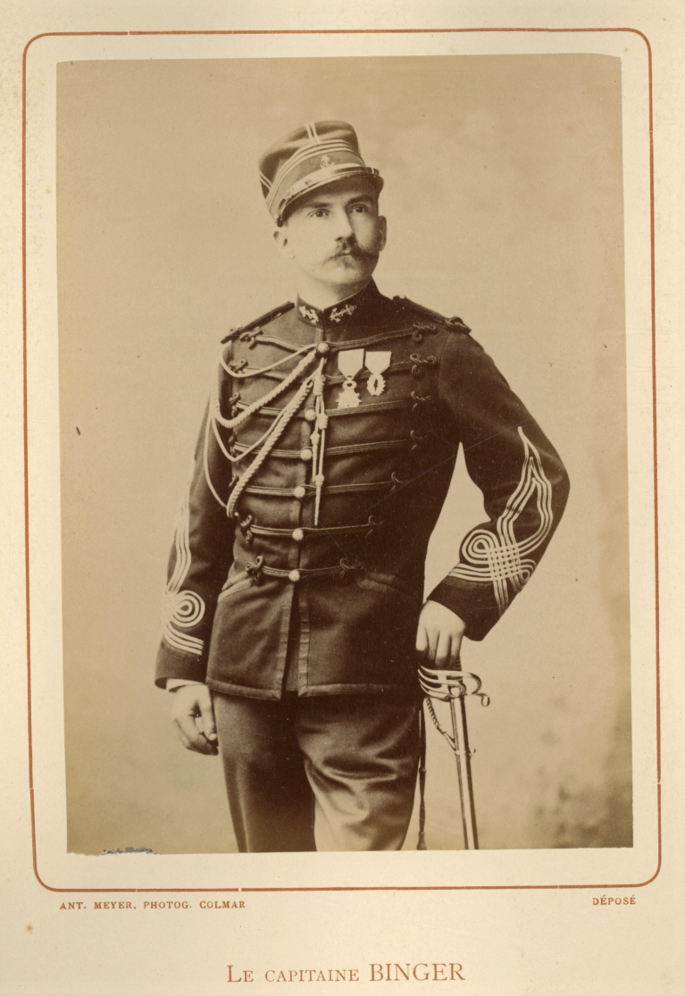 Portrait of Louis-Gustave Binger c. 1890, by Antoine Meyer